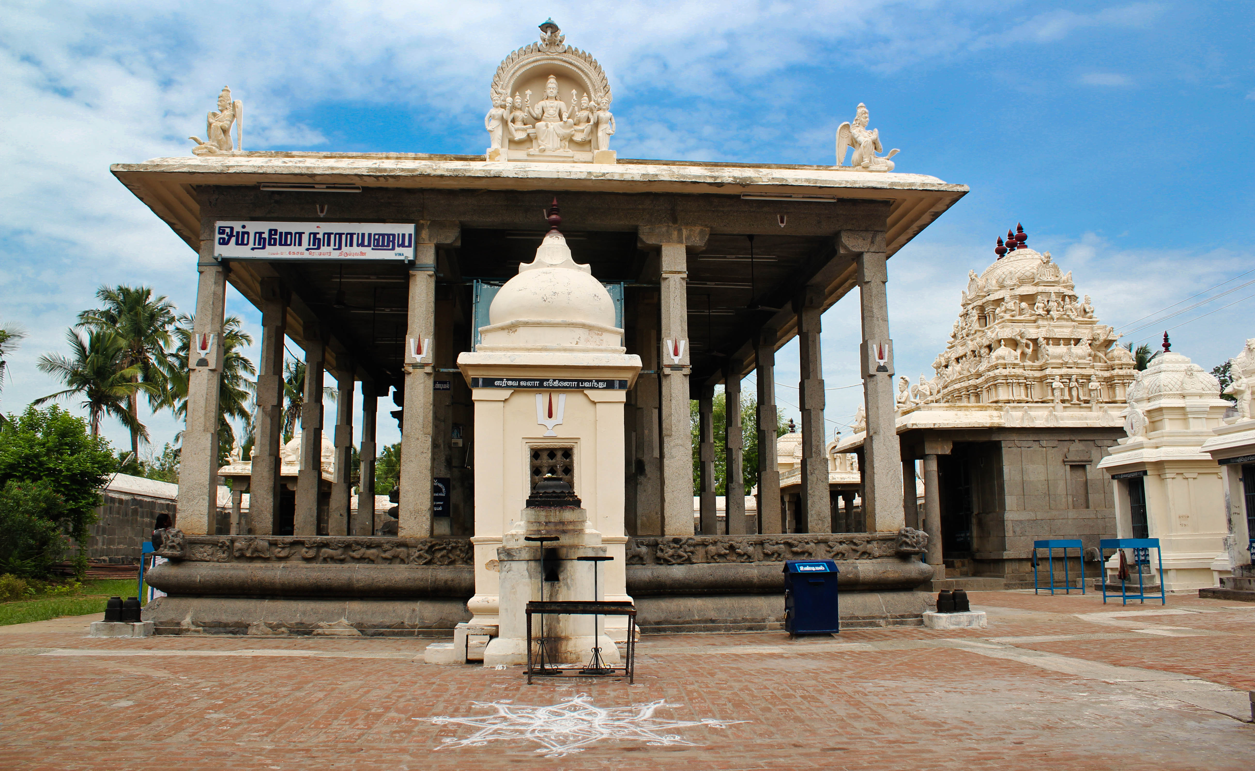 Varadaraja Perumal Temple